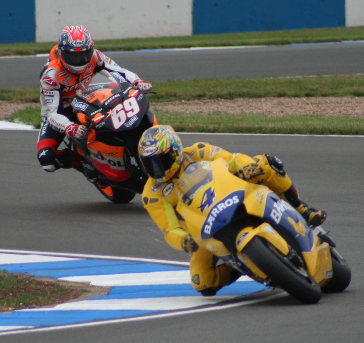 Alex Barros and Nicky Hayden